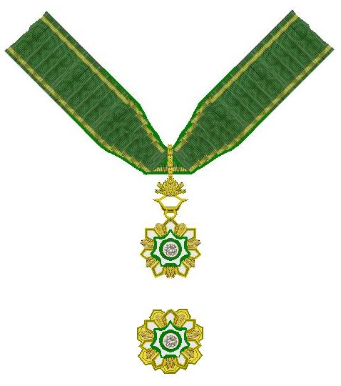 Saudi Order Second Class